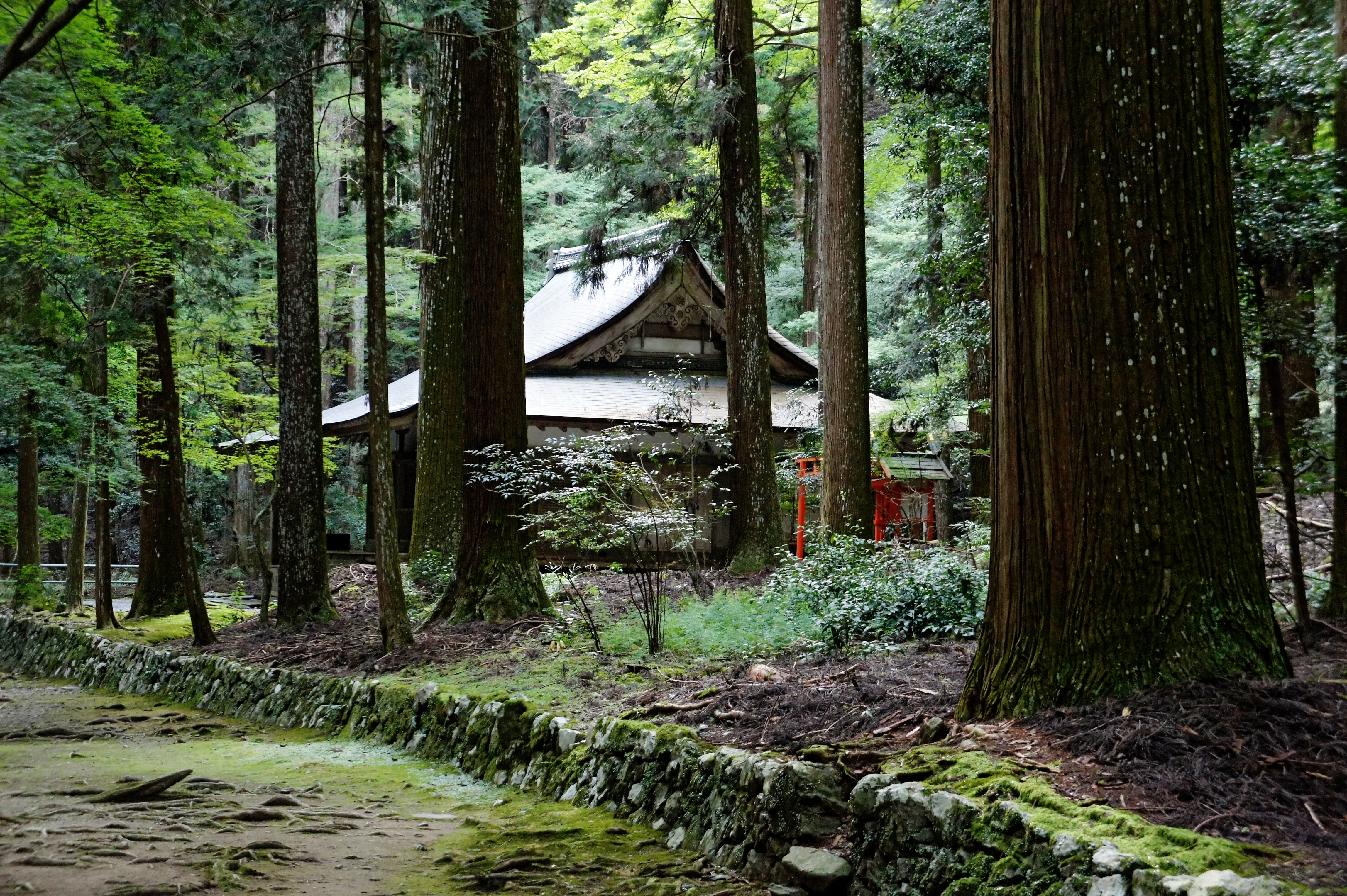 Kōzan-ji in Kita-ku, Kyoto, Kyoto Prefecture, Japan. It was registered as part of the UNESCO World Heritage Site "Historic monuments of ancient Kyoto".